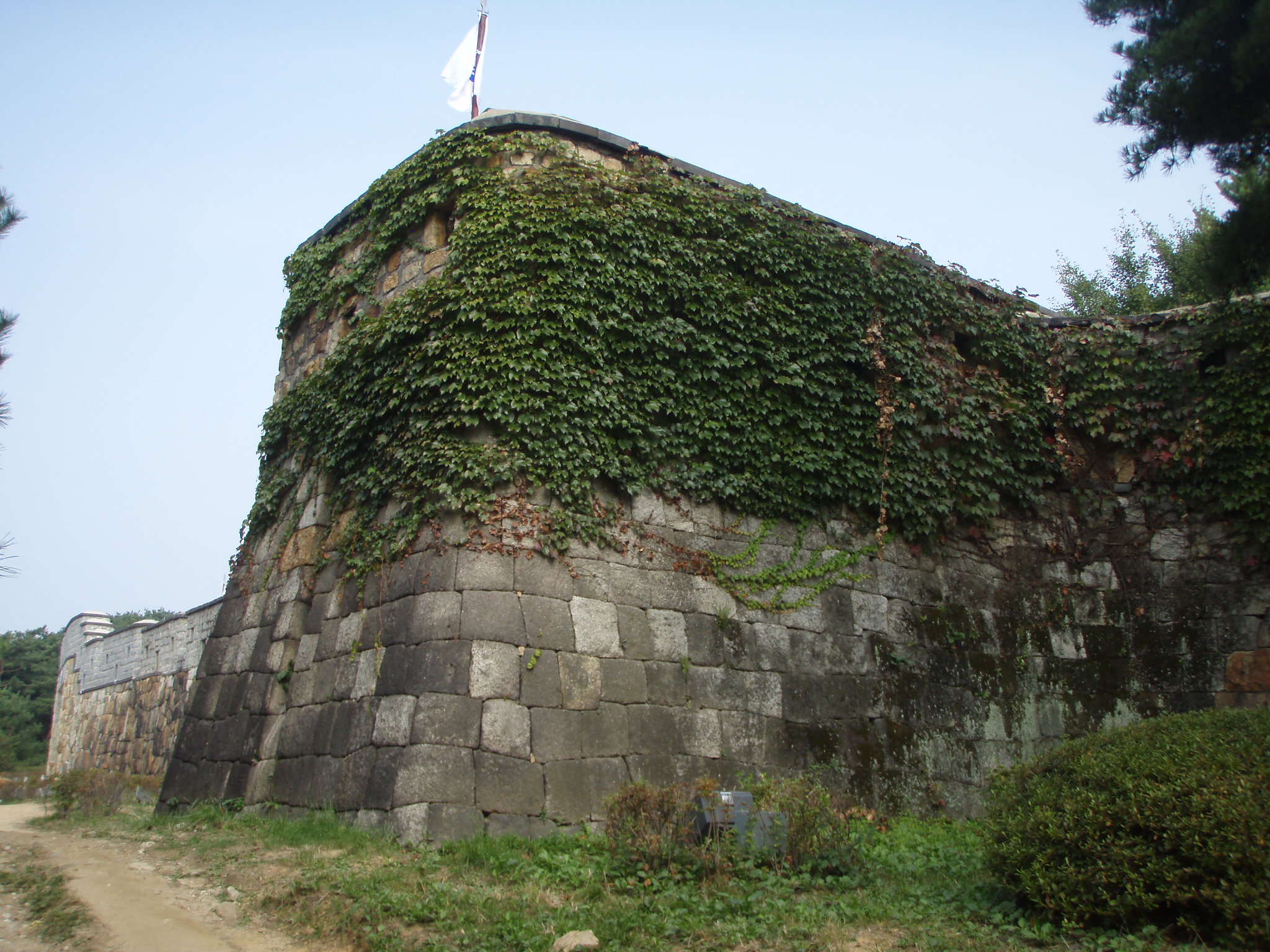 Seosamchi